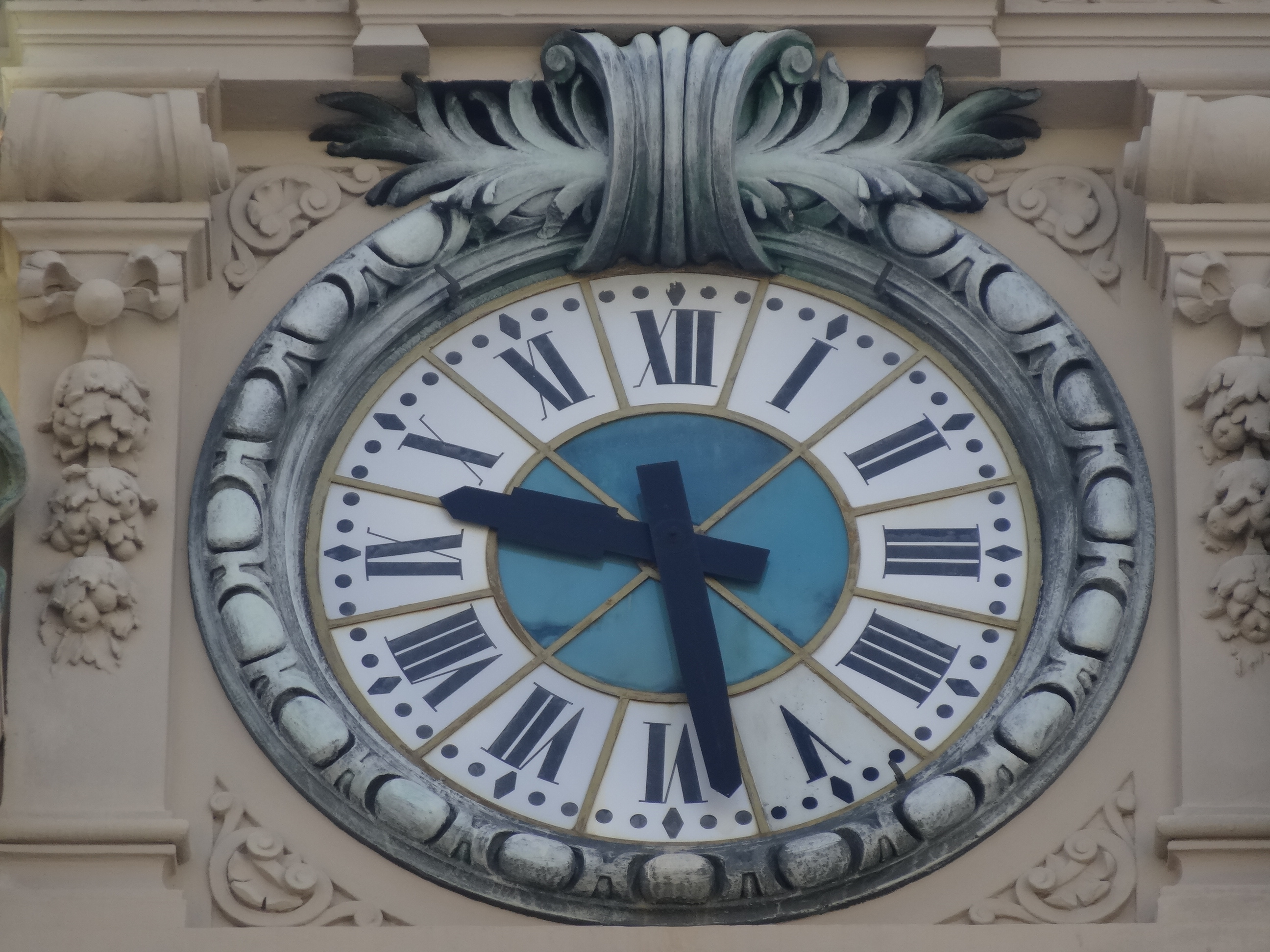 August 2016, Casino de Monte Carlo.